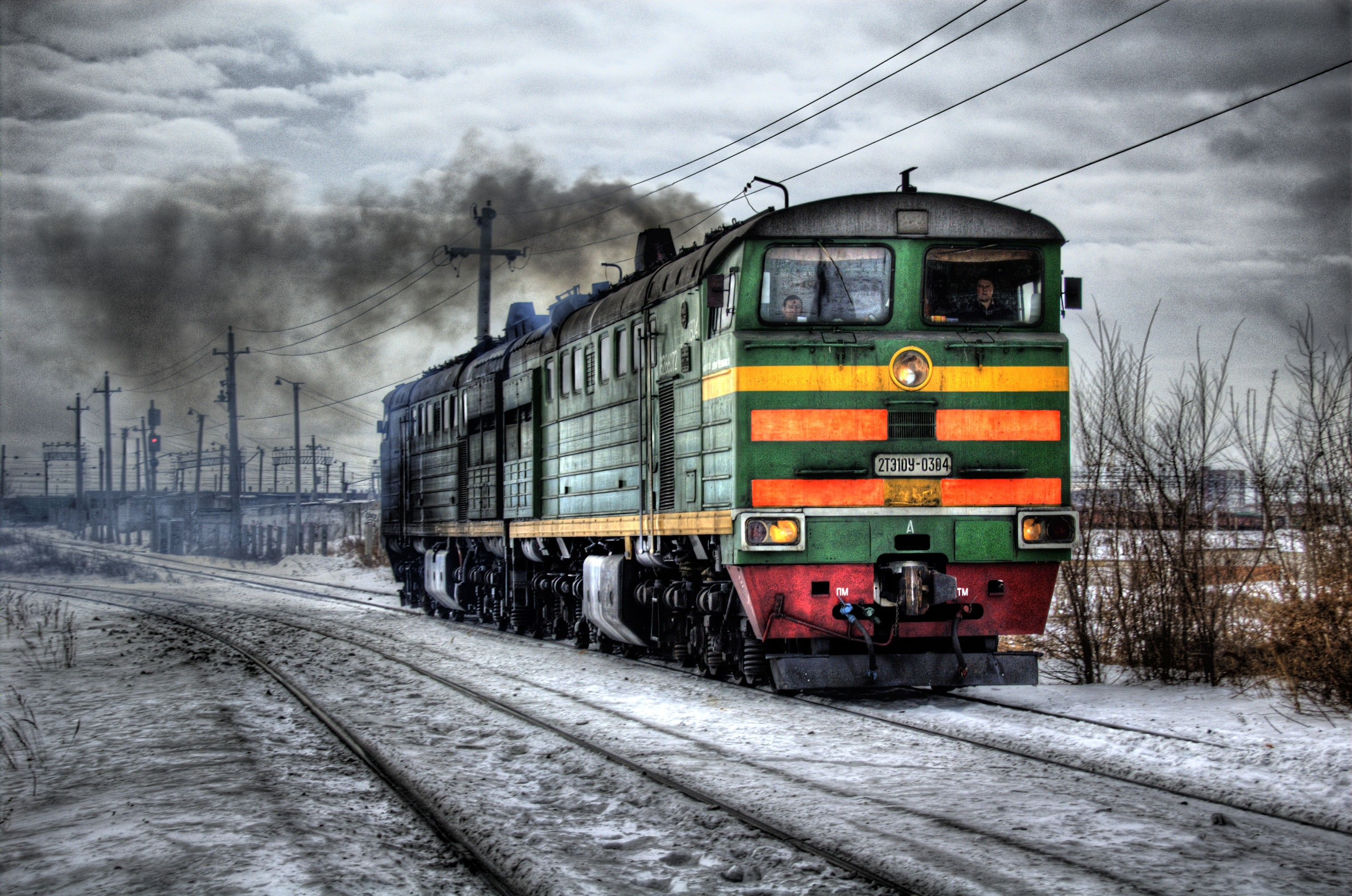 2TE10U Russian diesel locomotive